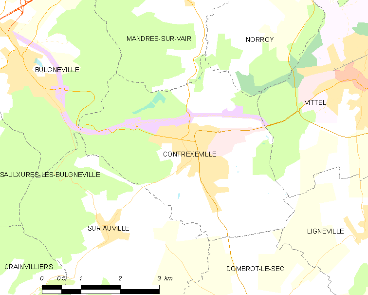 Map of French municipality Contrexéville